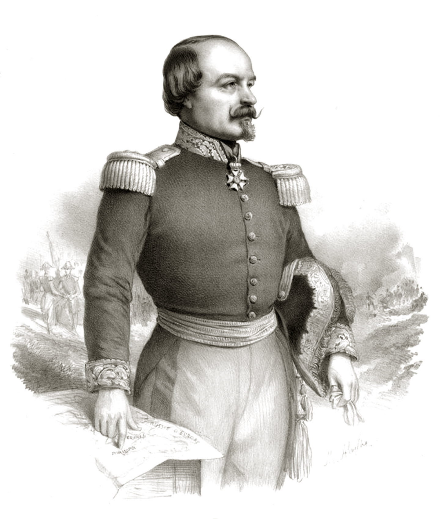 François Certain Canrobert